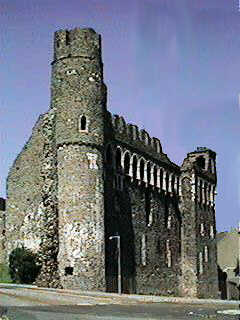 The remains of the 13th-century castle in Swansea, the chief castle of the Honour of Gower.